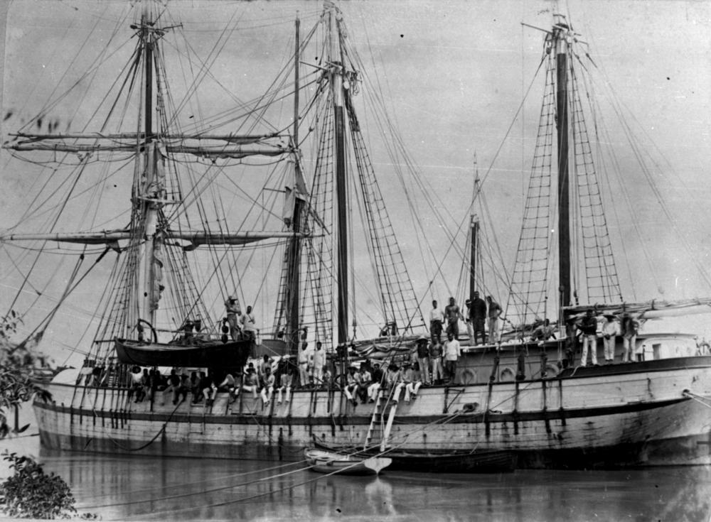 South Sea Islanders on a sailing ship at Bundaberg. South Sea Islander labourers arriving at Bundaberg, Queensland, on a large, three-masted sailing ship. Labour trade ship May at Bundaberg. The three-masted 237-ton schooner May, pictured below docked at Bundaberg, made several trips between 1890 and 1894, carrying up to 103 recruits, regularly visiting the New Hebrides and Solomon Islands. The May was also the first Queensland vessel to recruit in the Gilbert and Ellice Islands. There are several photographs of these Micronesian and Polynesian recruits at Yeppoon near Rockhampton, often passed off unknowingly in books as Melanesians, when their physical appearance belies the identification.[1]